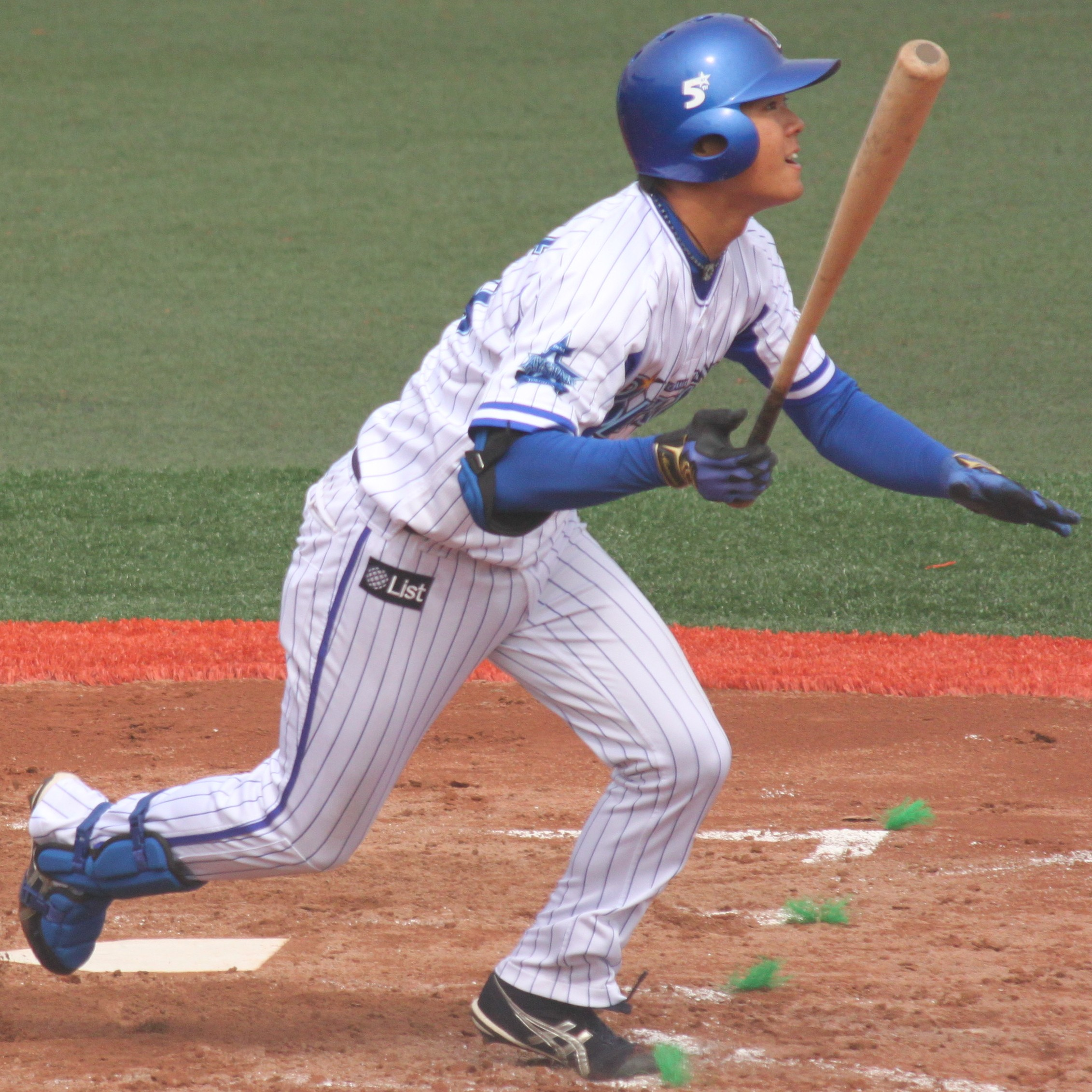 Hiroki Momose, infielder of the Yokohama DeNA BayStars, at Yokosuka Stadium